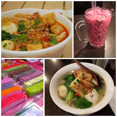 A composite image of Chinese Malaysian cuisine from these images. Upload by Night Lantern(By Andrew Currie on Flickr) Upload by Misaochan2 Upload by Brownc(By Yun Huang Yong on Flickr) Upload by Night Lantern(By Alpha on Flickr)